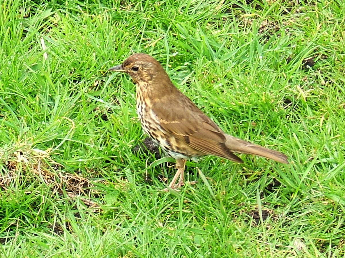 Song Thrush Turdus philomelos, Holy Island, Northumberland, UK